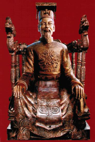 This is King Tran Minh Tong's statue.